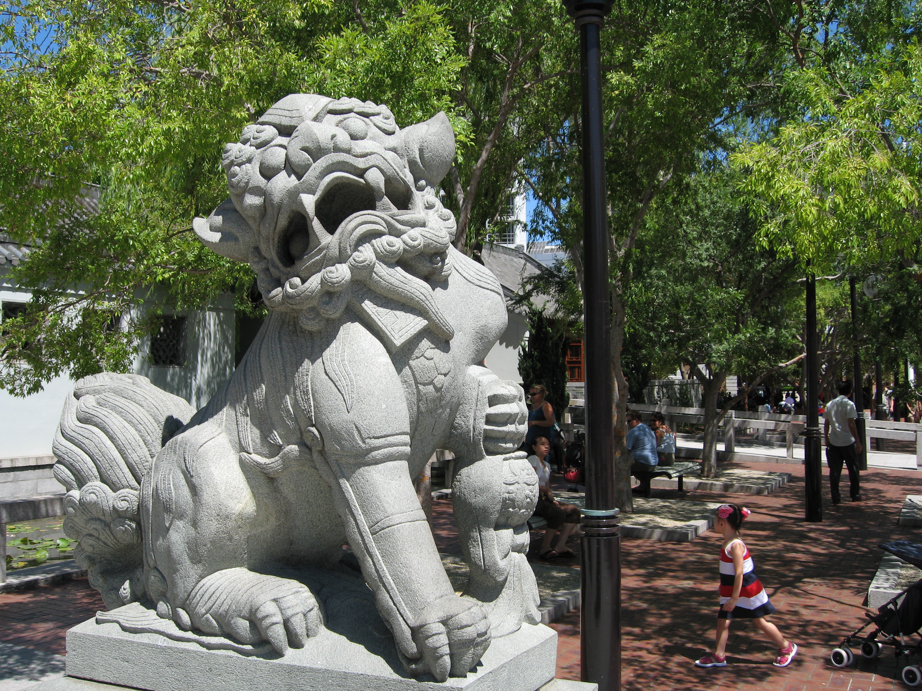 Entrance to Chinese Gardens, Darling Harbour, Sydney, Australia.